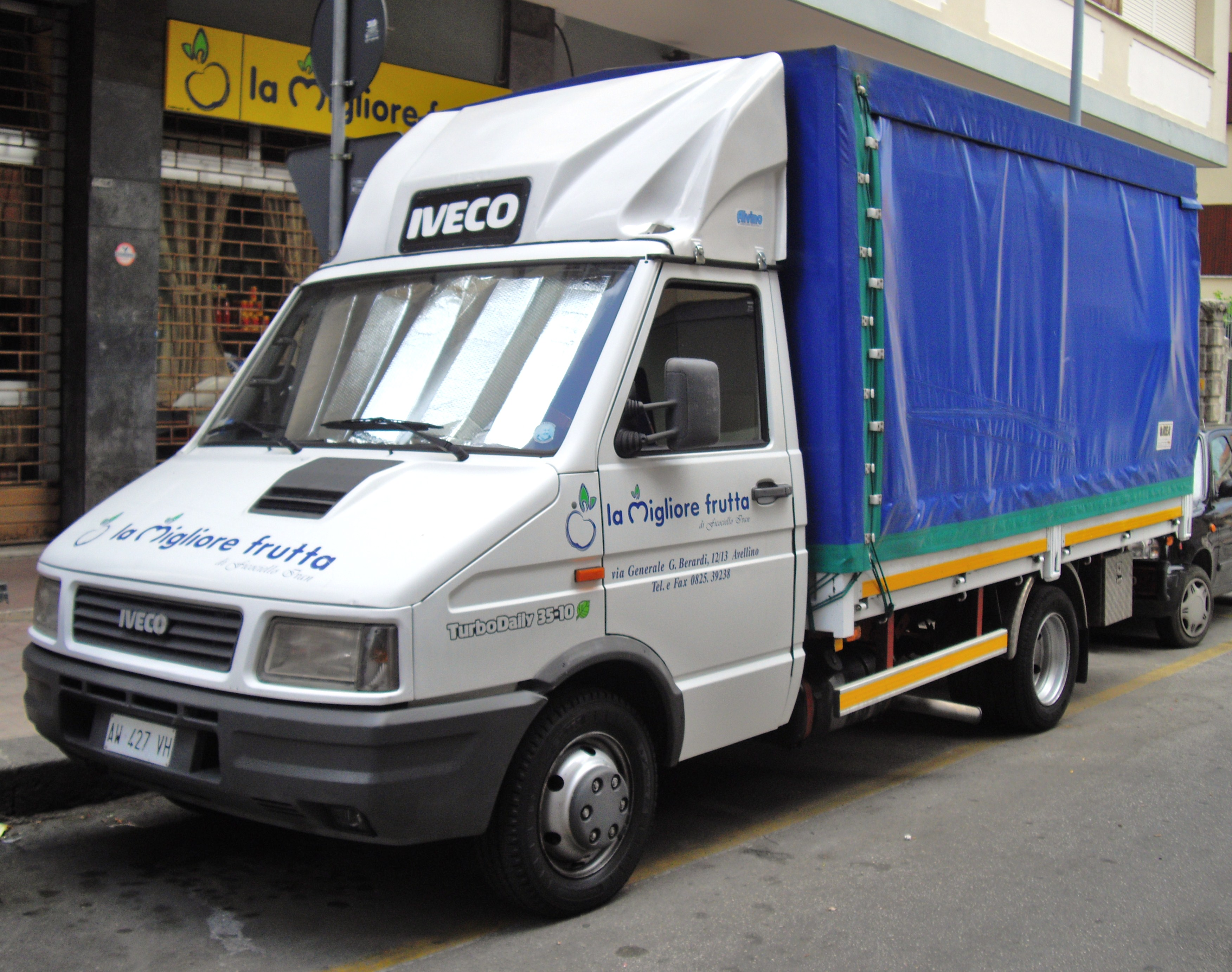 Iveco Daily